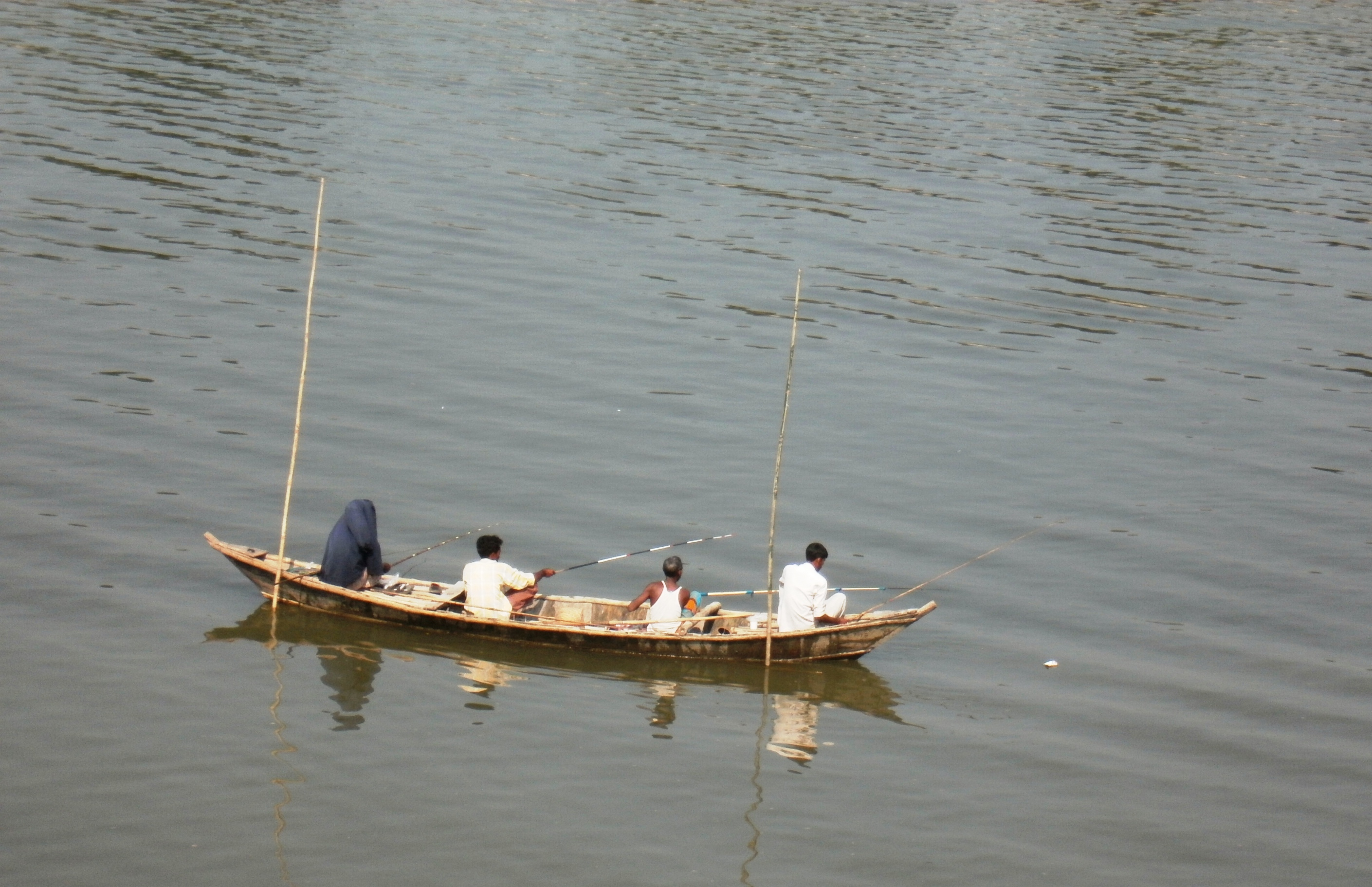 Four men angling from a boat floating on the Brahmaputra River.